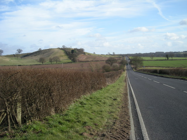 A 458 to Stourbridge